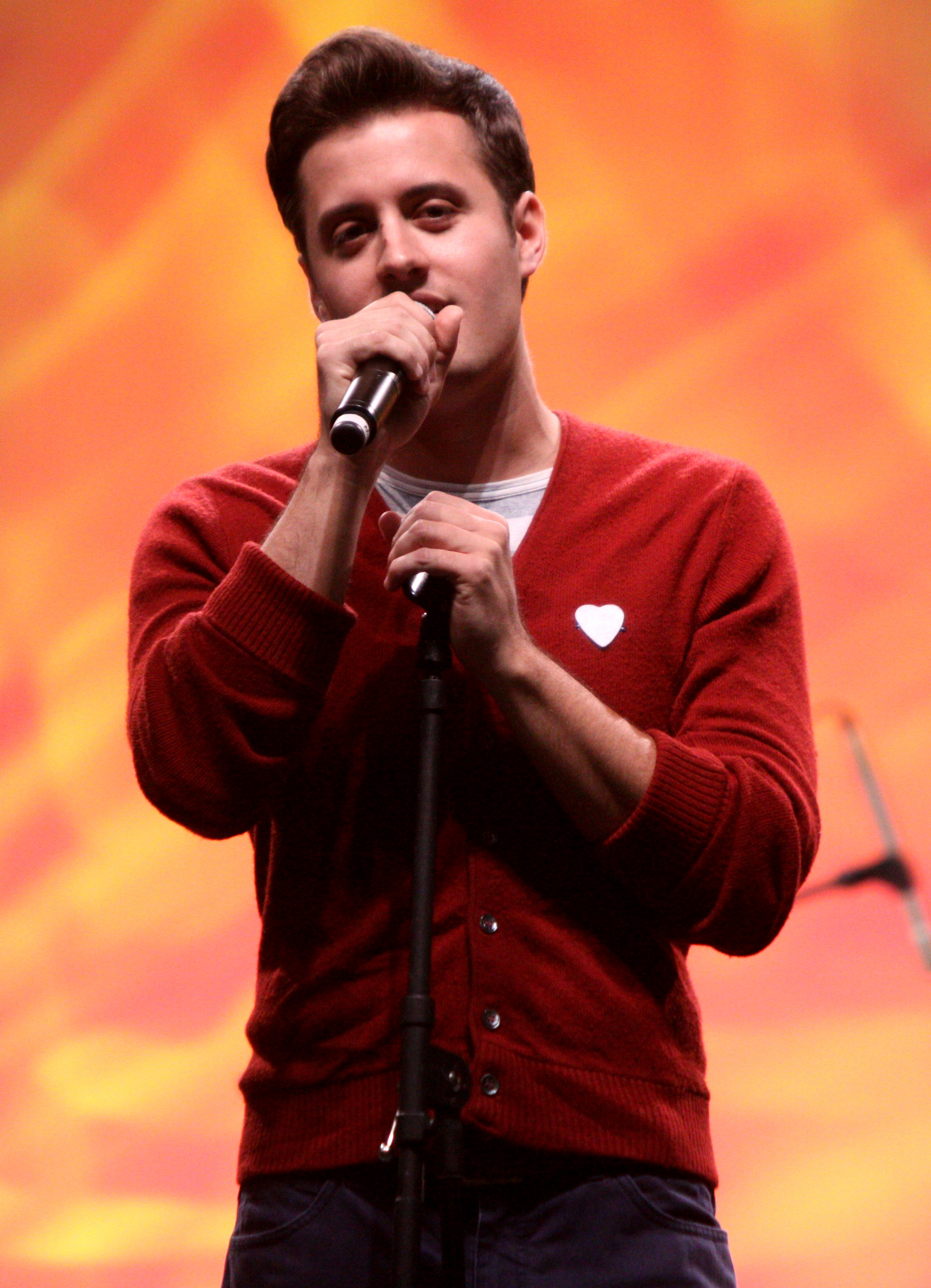 Nick Pitera at the 2012 VidCon in Anaheim, California.